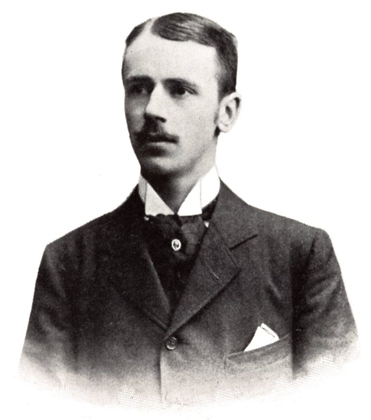 István Bethlen (1874-1946), Hungarian politician, prime minister